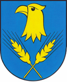 Coat of arms of the German municipality of Kargow.